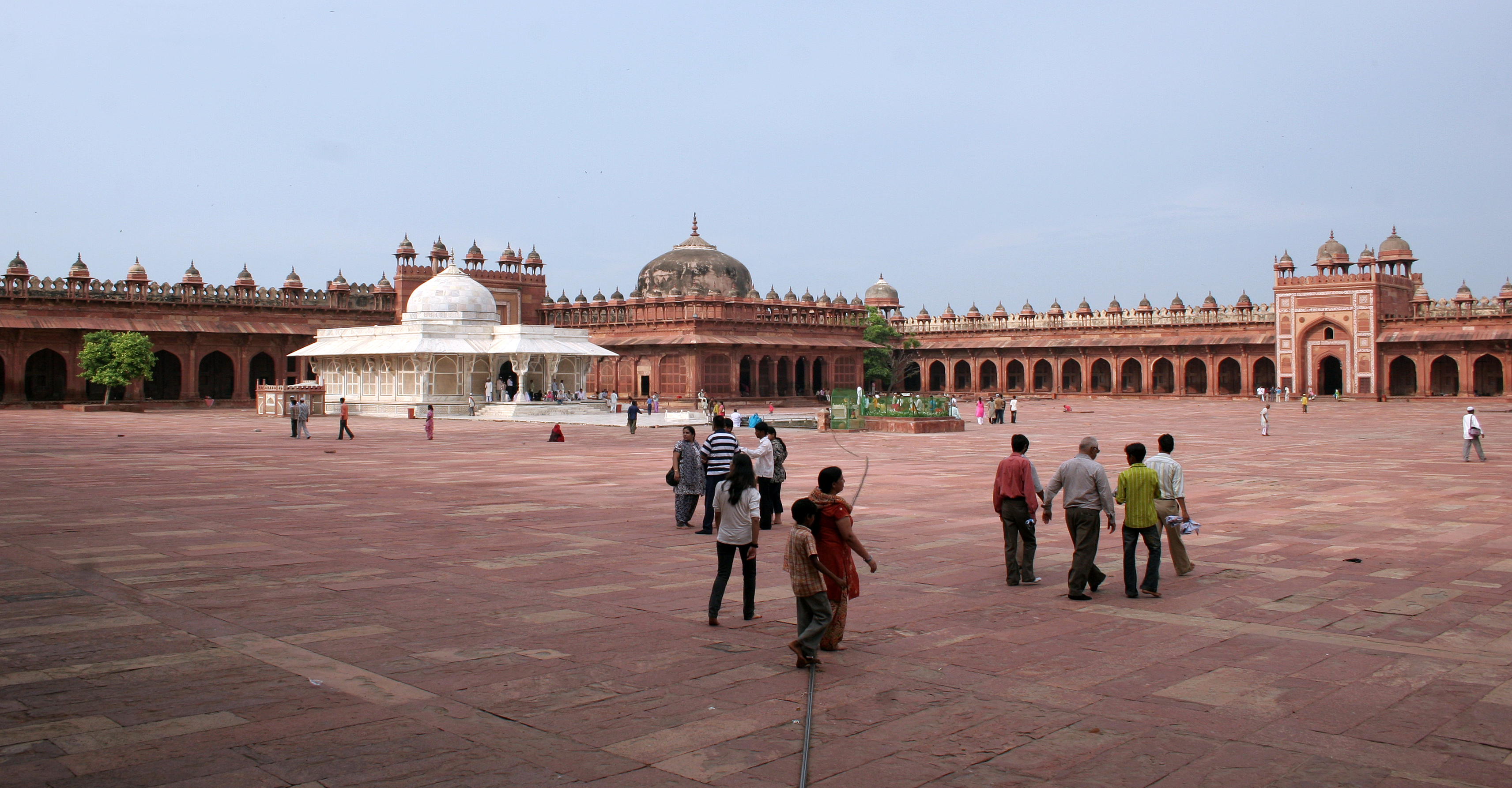 The mosque area at Fatehpur Sikri with the white Salim Chishti Tomb